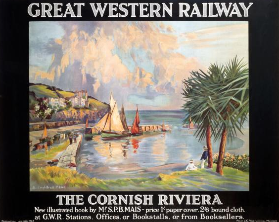 Poster depicting three boats in a Cornish harbour